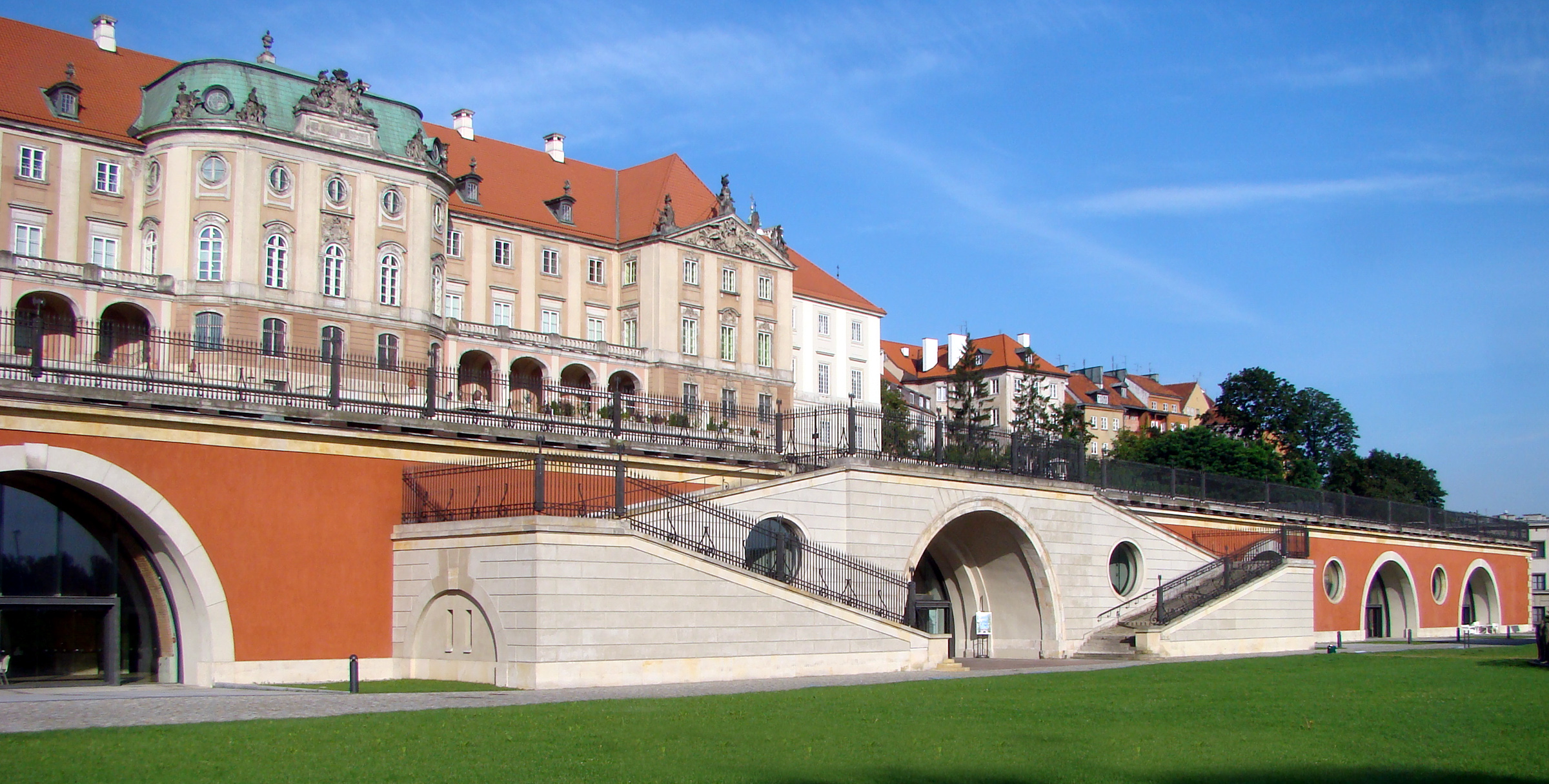 Stairs of Kubicki Arcades, Royal Castle, Warsaw